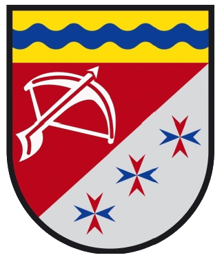 Coat of Arms Lahr (Eifel)